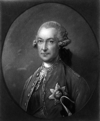 by James Scott, after Thomas Gainsborough, mezzotint, 1871